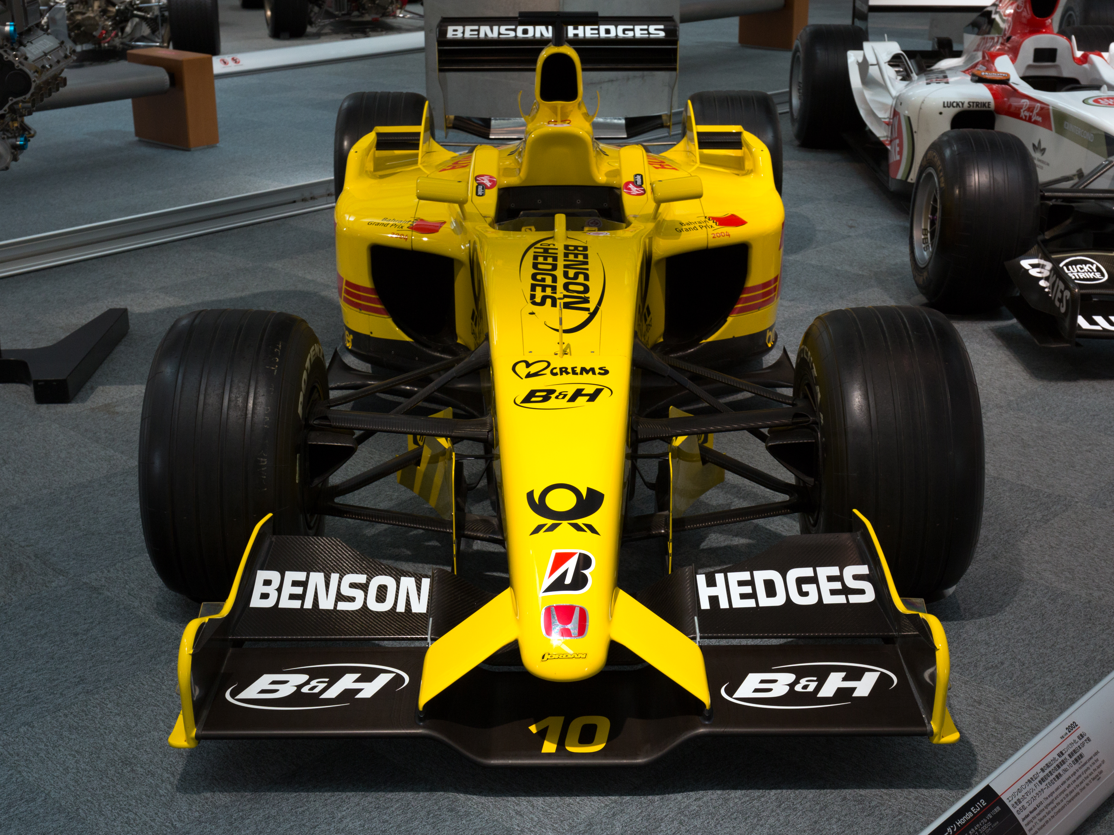 2002 Honda RAEJ12